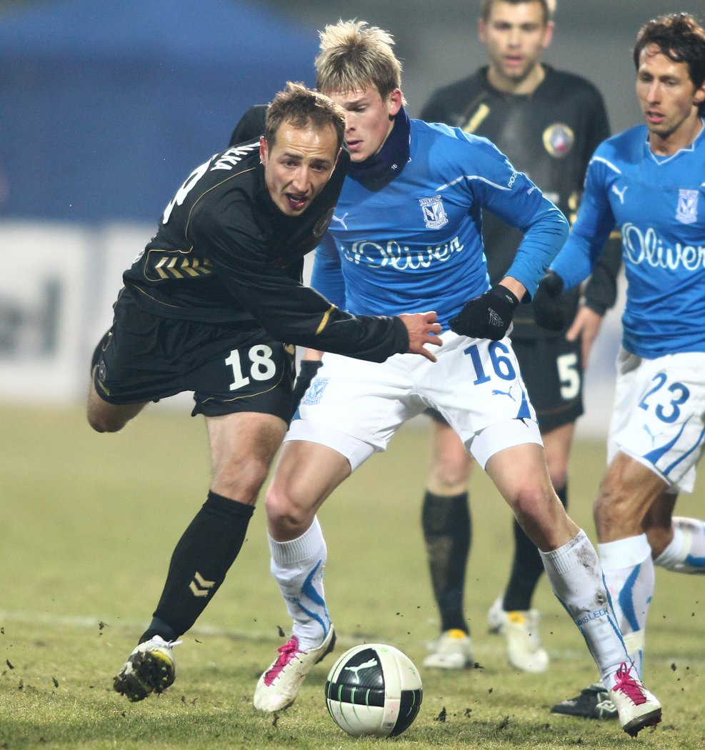 Łukasz Trałka (left, no 18) and Artjoms Rudnevs (centre, no 16) of Lech Poznań in an encounter during a Polish Cup match, Marcin Kikut (right, no 23) and Đorđe Čotra (background, no 5) watch the scene